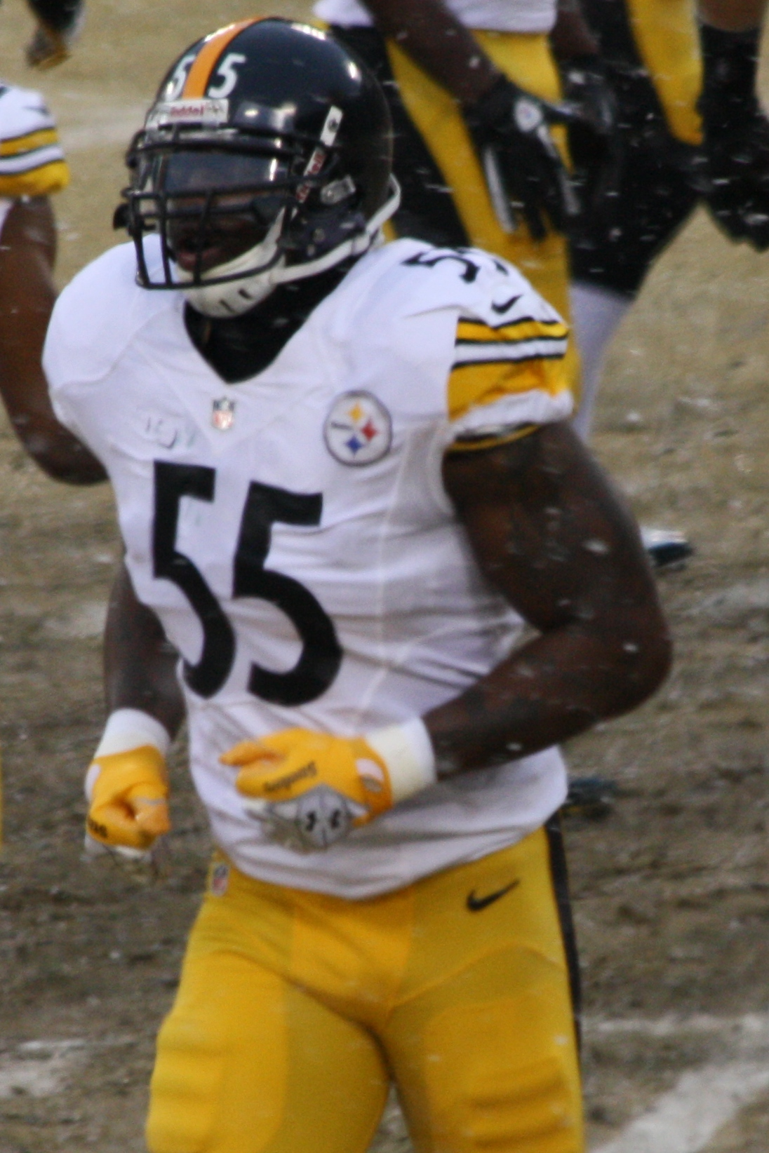 Pittsburgh Steelers player Stevenson Sylvester coming off the field.